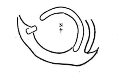 An outline of the motte and bailey castle, from page 513 of the 1817 book by J. H. HANSHALL